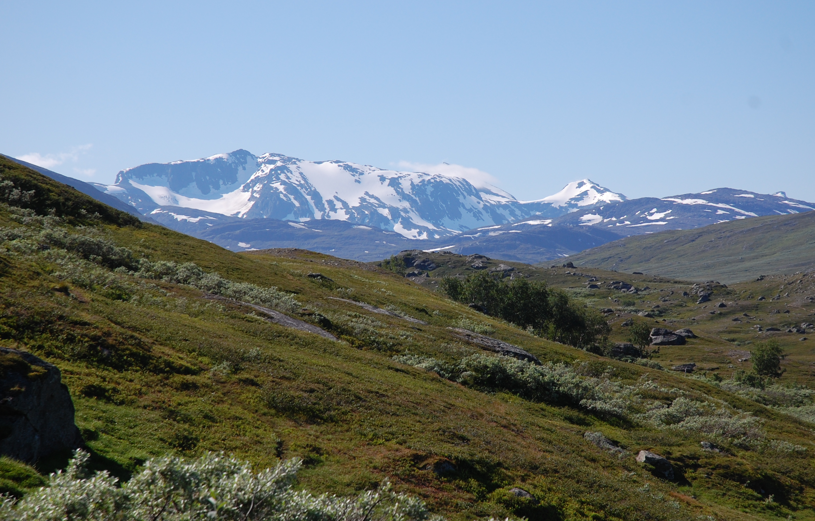 Sulitelma from east, close to norwegian border